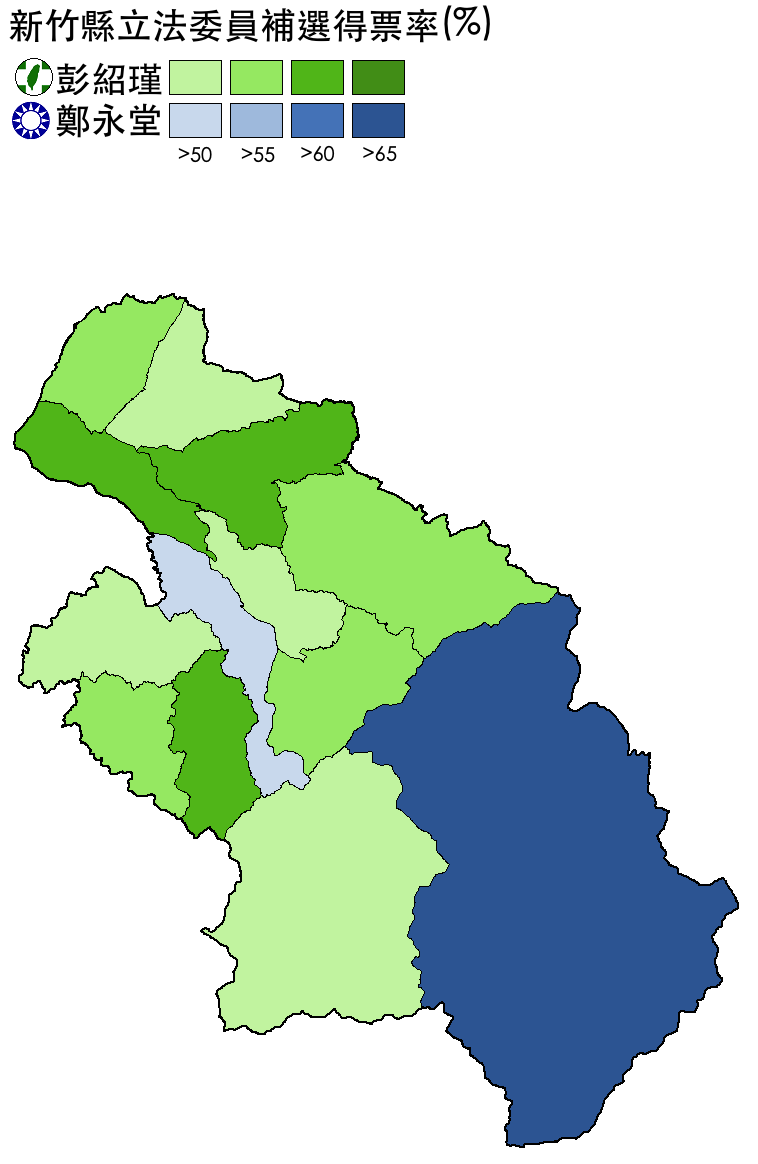 Hsinchu county legislative yuan by-election 2010